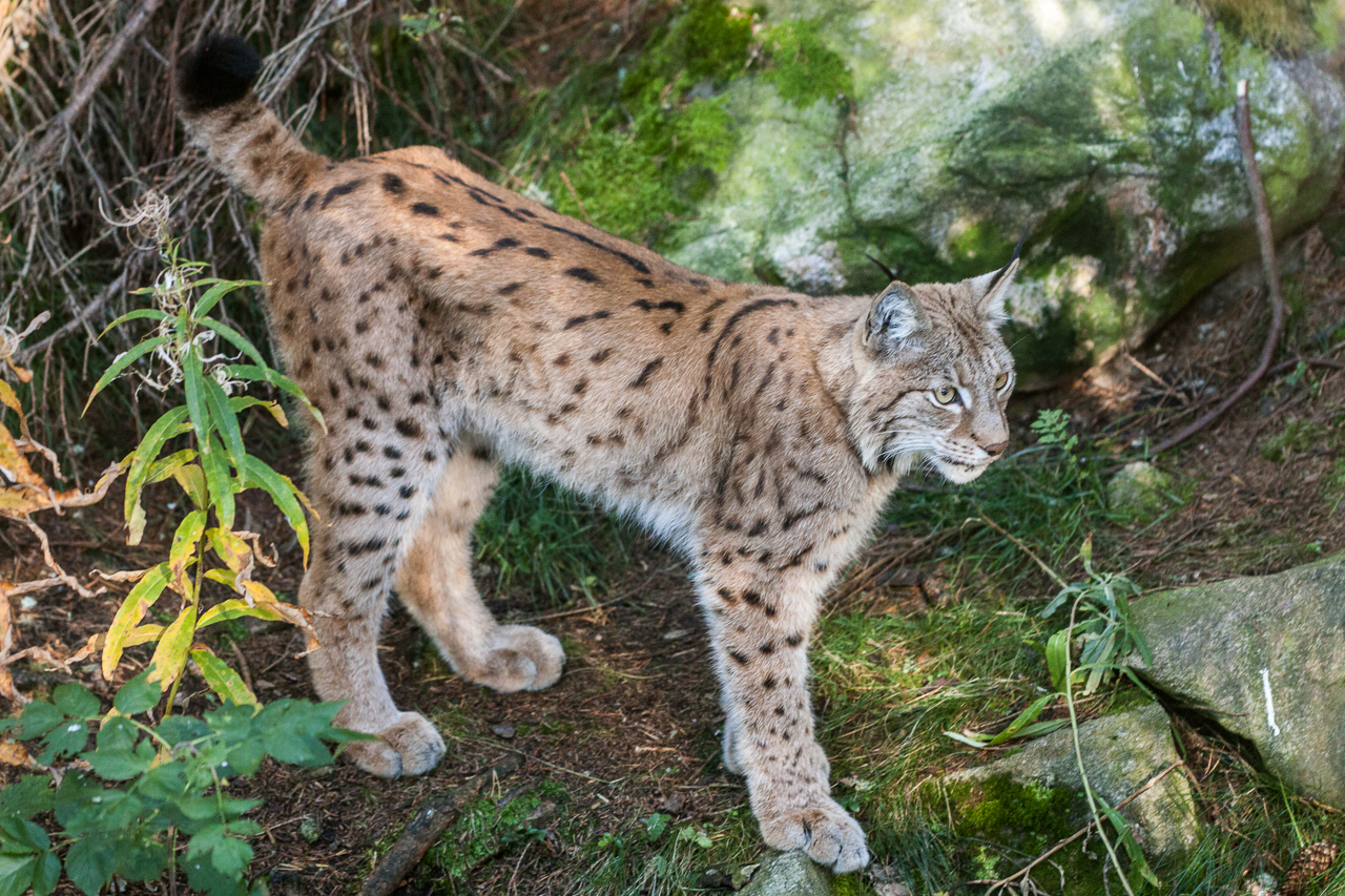 A lynx in an enclosure in Järvzoo, a zoo in Sweden